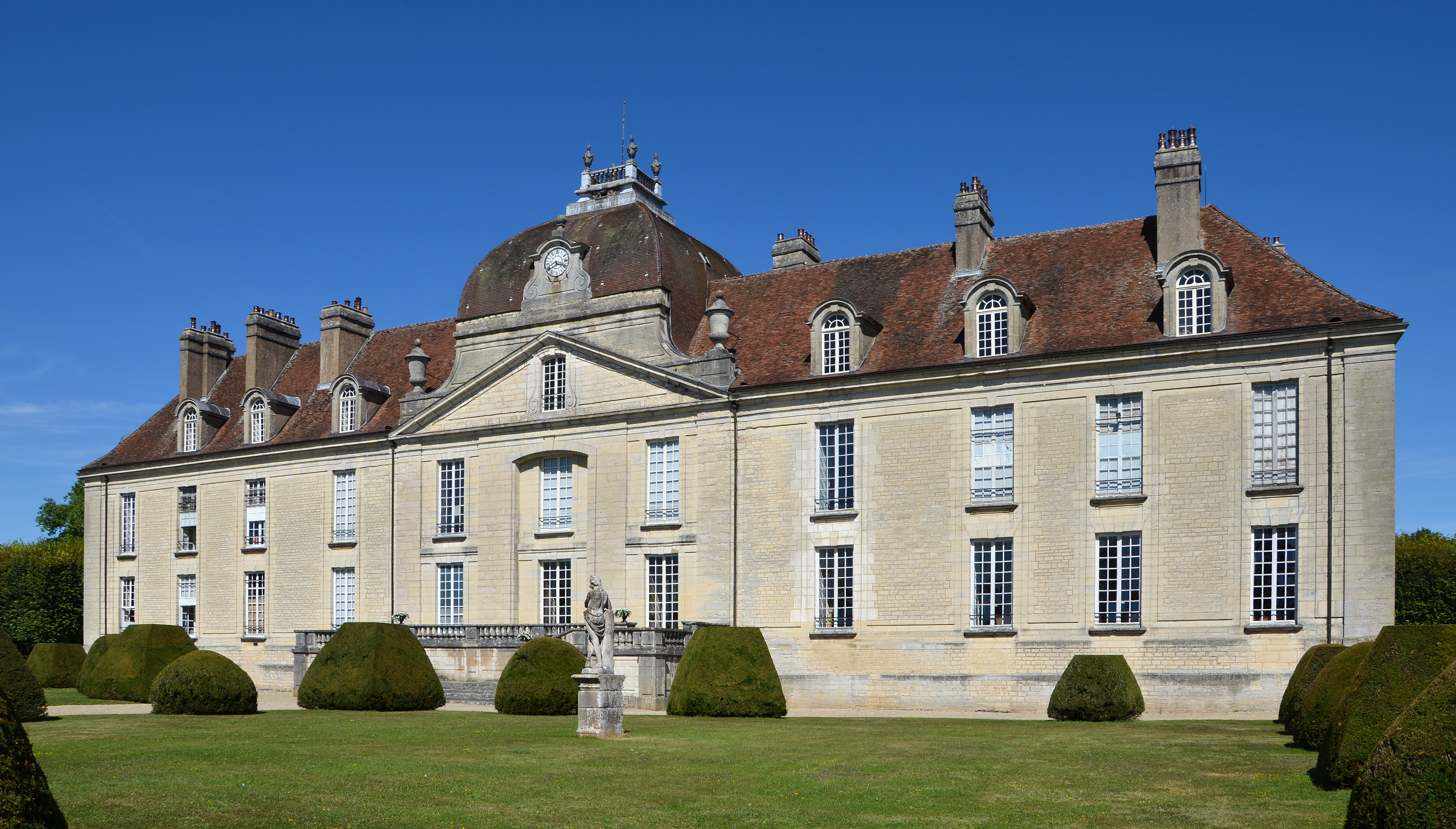 Castle of Fontaine-Française, Côte d'Or, Bourgogne, France This building is en partie classé, en partie inscrit au titre des Monuments Historiques. .